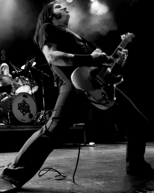 Guitarist Mick Murphy playing live with Chevy Metal. Photo for use in article Mick Murphy (Guitarist)